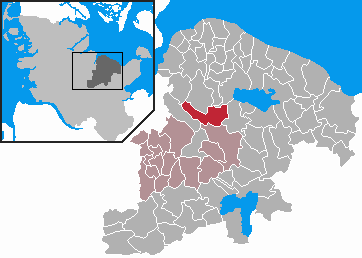 This map shows the area of the Gemeinde (municipality) Rastorf in the Kreis (district) Plön, Schleswig-Holstein, Germany.